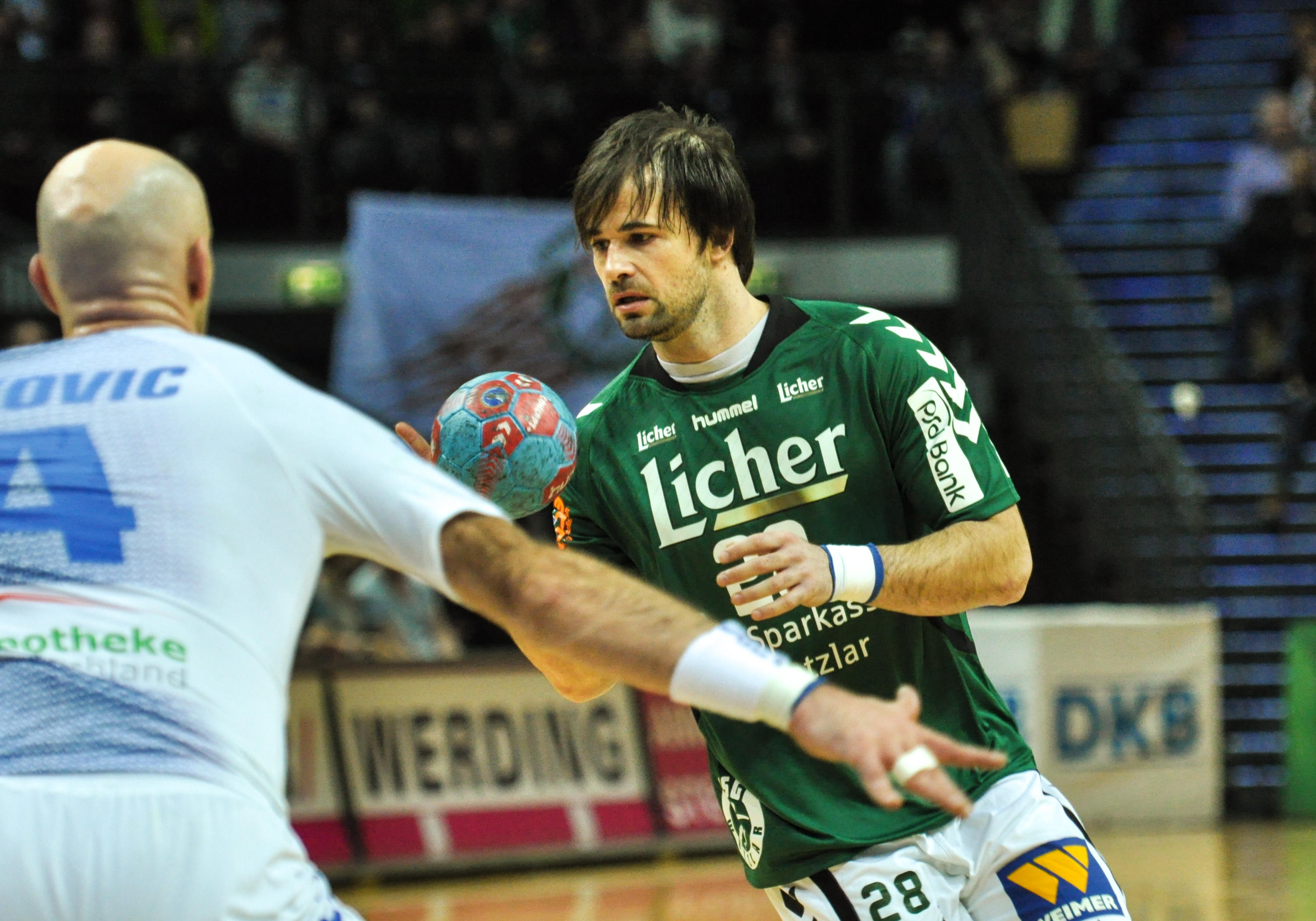 taken on February 8, 2014 during DKB Handball-Bundesliga match between HSG Wetzlar and HSV Hamburg